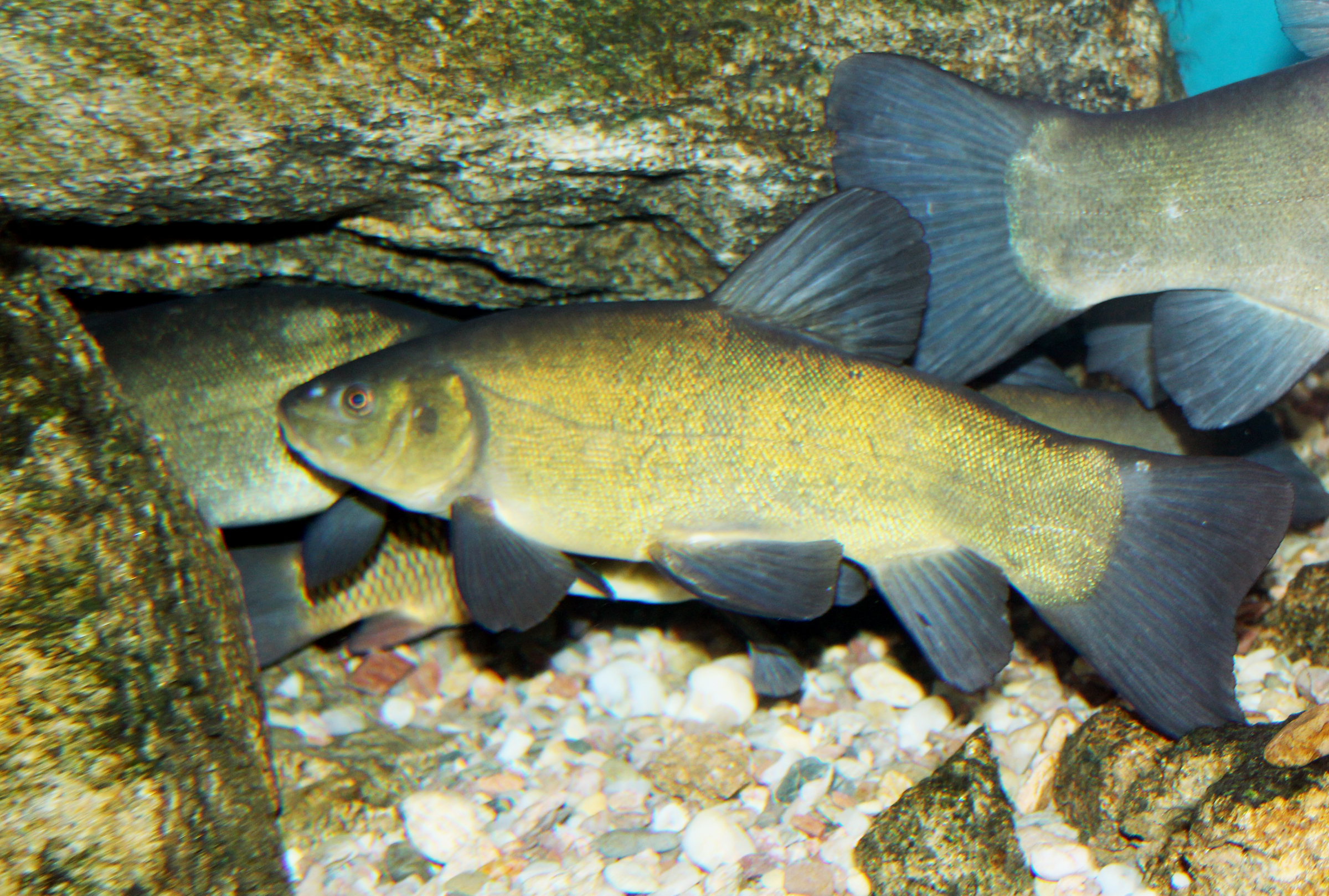 Fish Tench on exhibition Subaqueous Vltava, Prague 2011, Czech Republic